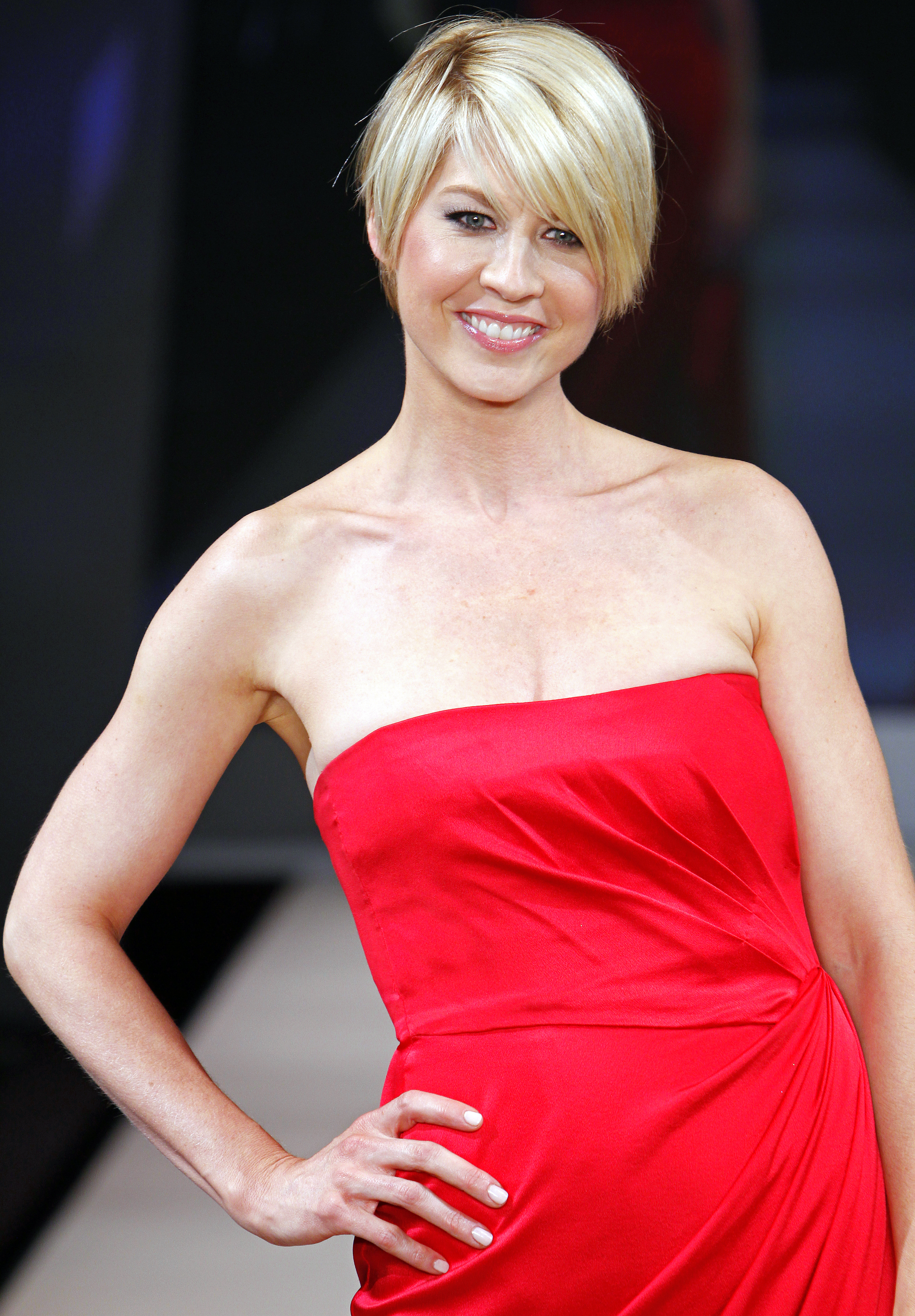 Jenna Elfman: The Heart Truth's Red Dress Collection Fashion Show 2012.